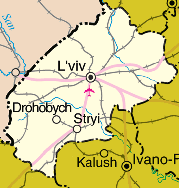 Map of Lviv Oblast, Ukraine